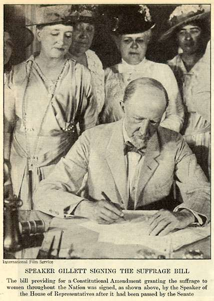 Speaker Gillett Signing the Suffrage Bill